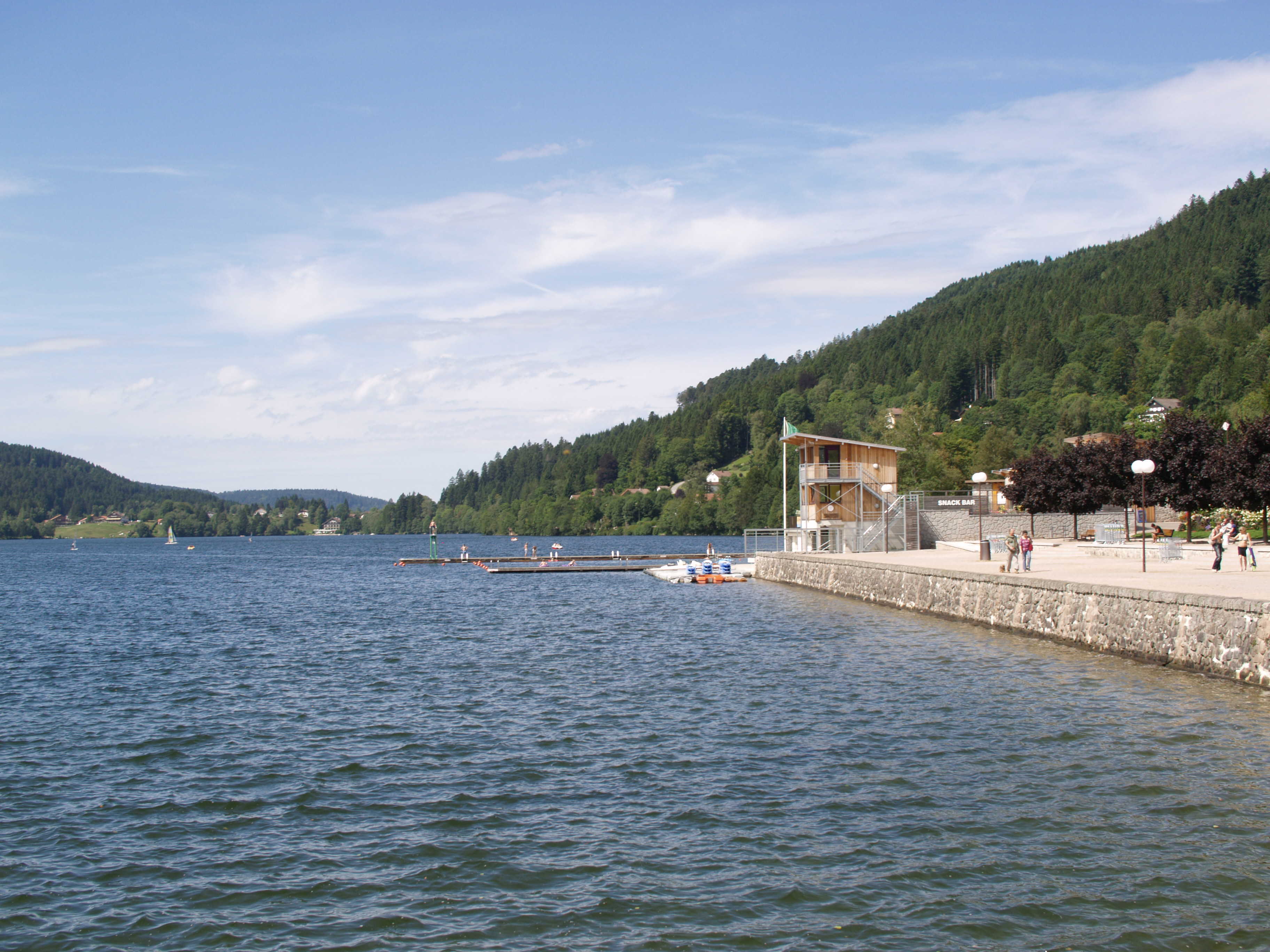 The lake of Gérardmer